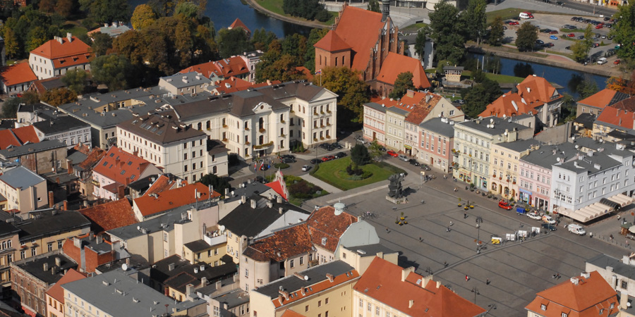 Bydgoszcz, Stary Rynek,city attraction